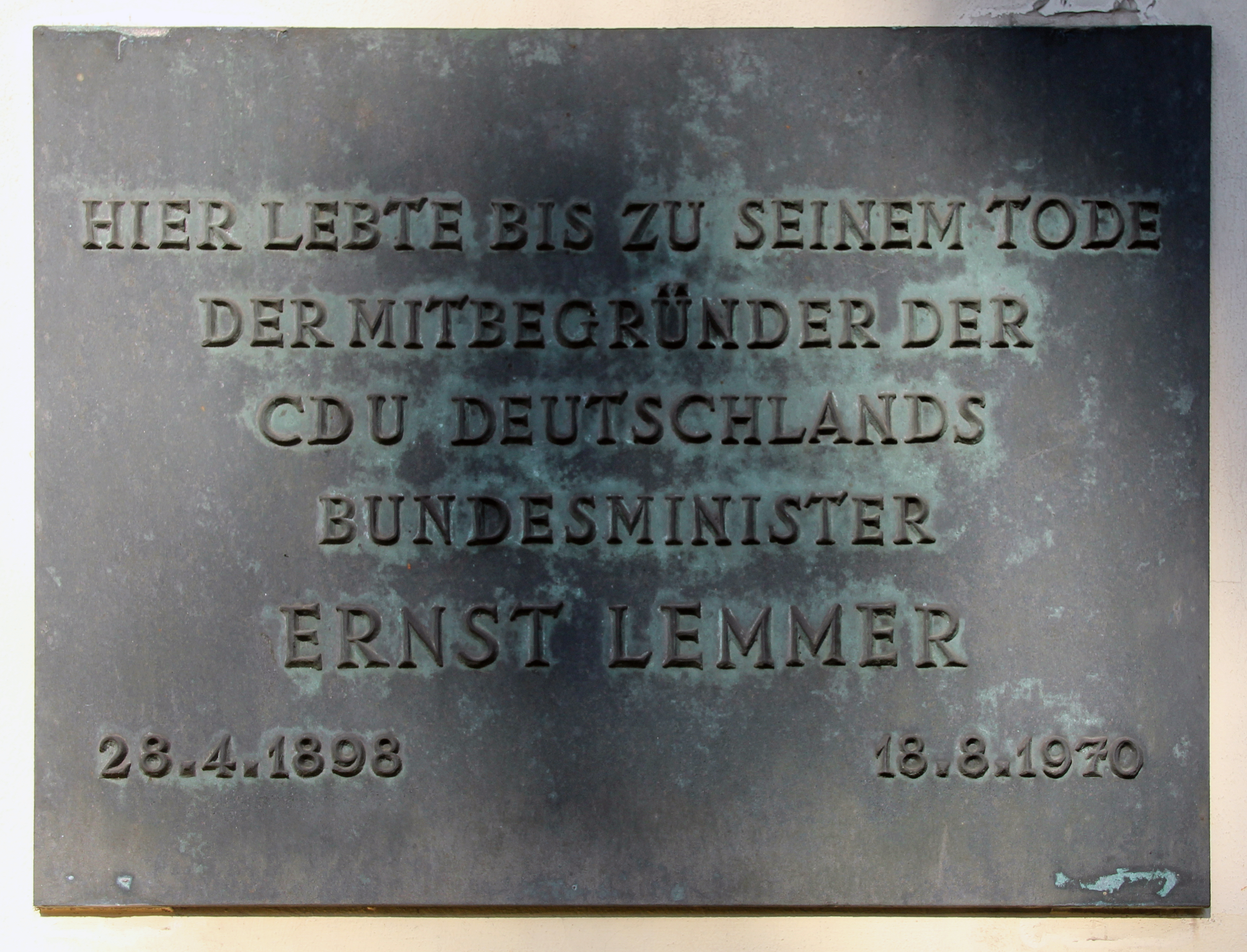 Memorial plaque, Ernst Lemmer, Schützallee 135, Berlin-Zehlendorf, Deutschland